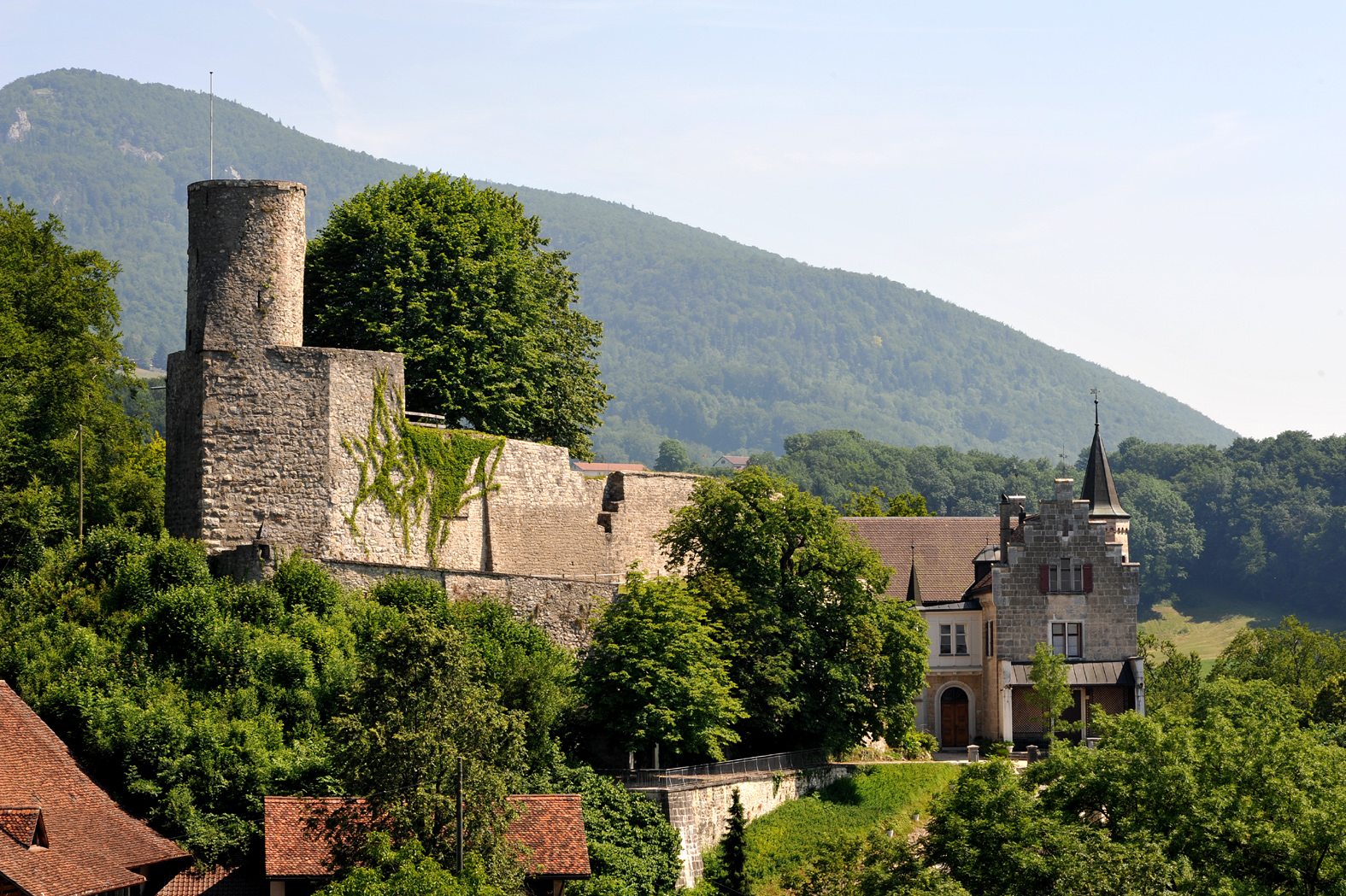 Bipp castle between Oberbipp and Rumisberg; Bern, Switzerland.